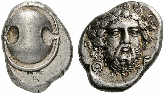 Boeotia. Thebes. Circa 405-395 BC. Stater (Silver, 11.97 g). Boeotian shield. Rev. Q-E Head of bearded Dionysos three-quarter facing, turned slightly to the right, wearing ivy wreath; all within a very shallow circular incuse. BCD Boiotia 457 (same dies). Head, Boeotia p. 41 = BMC 104, pl. XIV, 9. Jameson 1164 (same reverse die). Very rare. An attractive and splendid coin of great beauty. Nearly extremely fine. From the collection of APCW, ex Nomos List 3, 2010, 60. This is surely the most majestic and noble facing head of Dionysos to be found anywhere on ancient Greek coinage. He has a serene beauty that is in contrast to the wild and orgiastic nature the god can have on other occasions; his eyes are clear here, and his gaze penetrating. It is interesting to note that the artist who made the dies for this coin seems to have been following a Theban tradition in not including any trace of the god’s neck, as with the facing heads of Herakles that appear on Theban staters about a generation earlier (BCD 422-423): this gives the portrait an ethereal, almost other-worldly feel, as if the god is actually looking out from a swirl of clouds at the viewer. NOMOS3, 83.